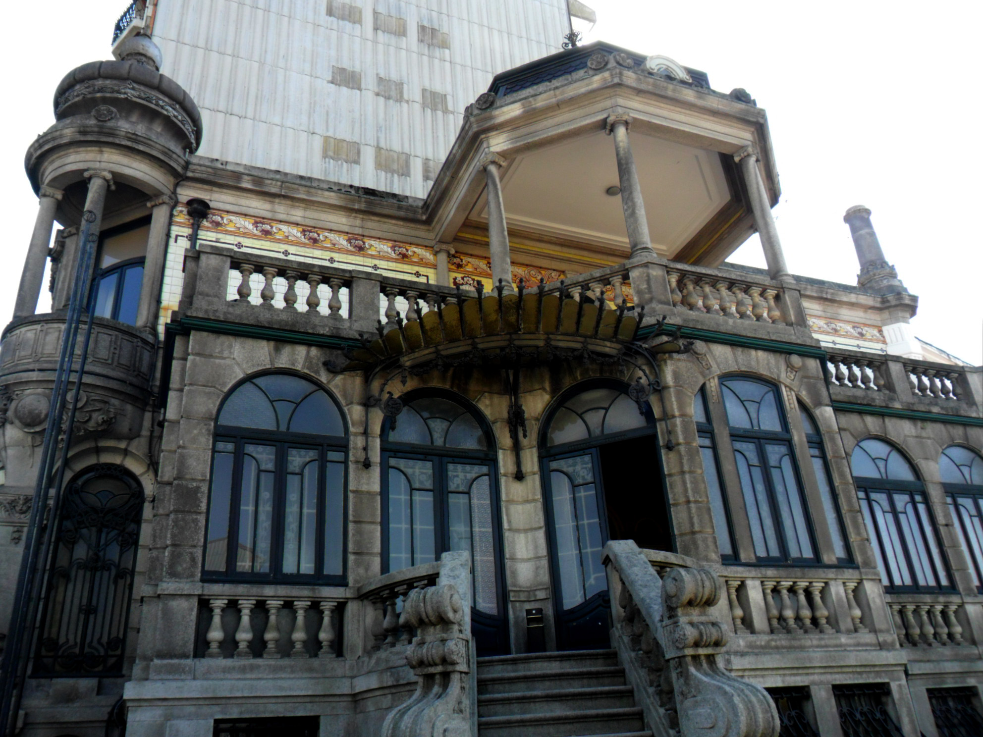 This file was uploaded for Wiki Loves Monuments in Portugal with the unique identifier 74707.